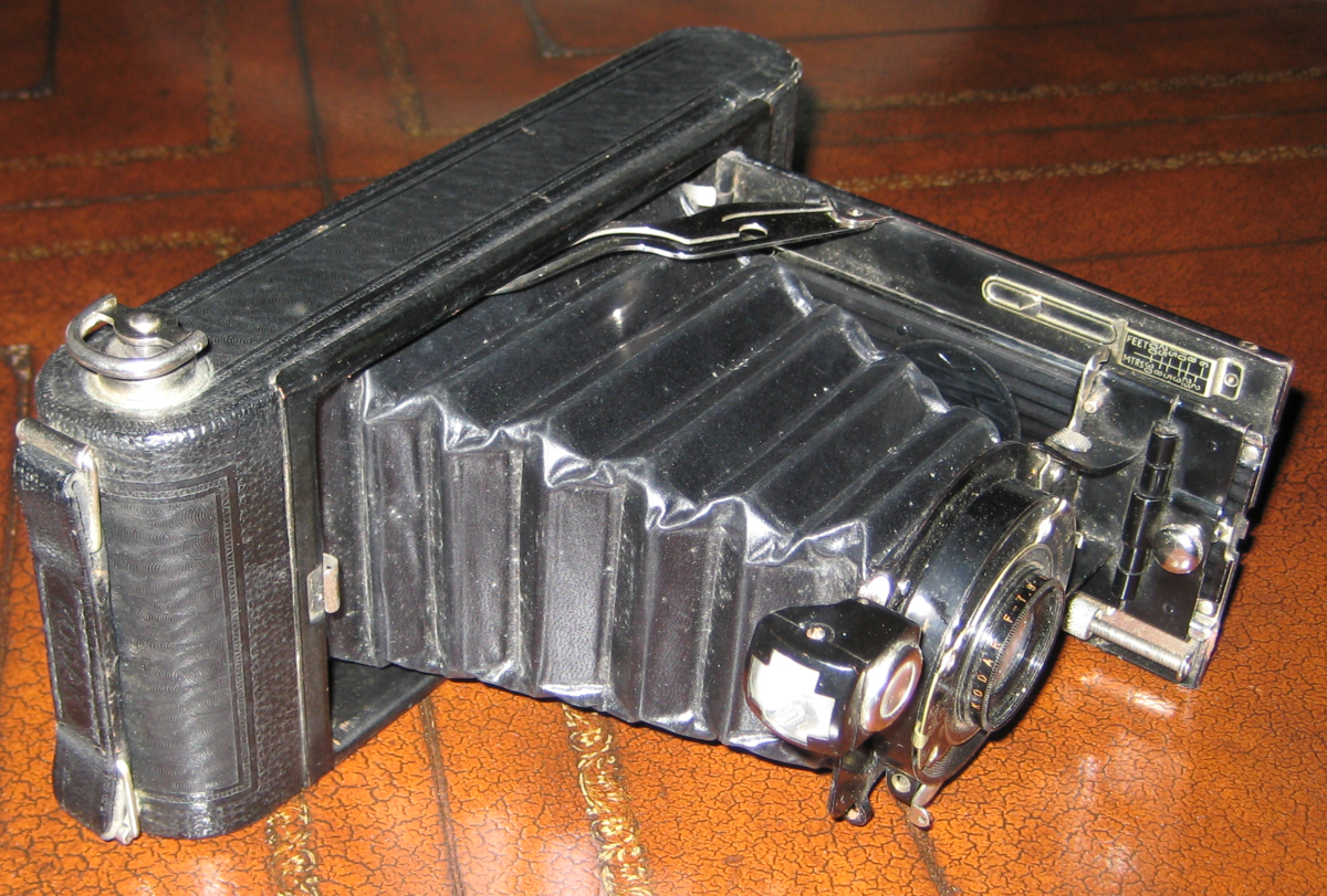 1921 Kodak Vest Pocket Kodak camera (original patent in 1913)